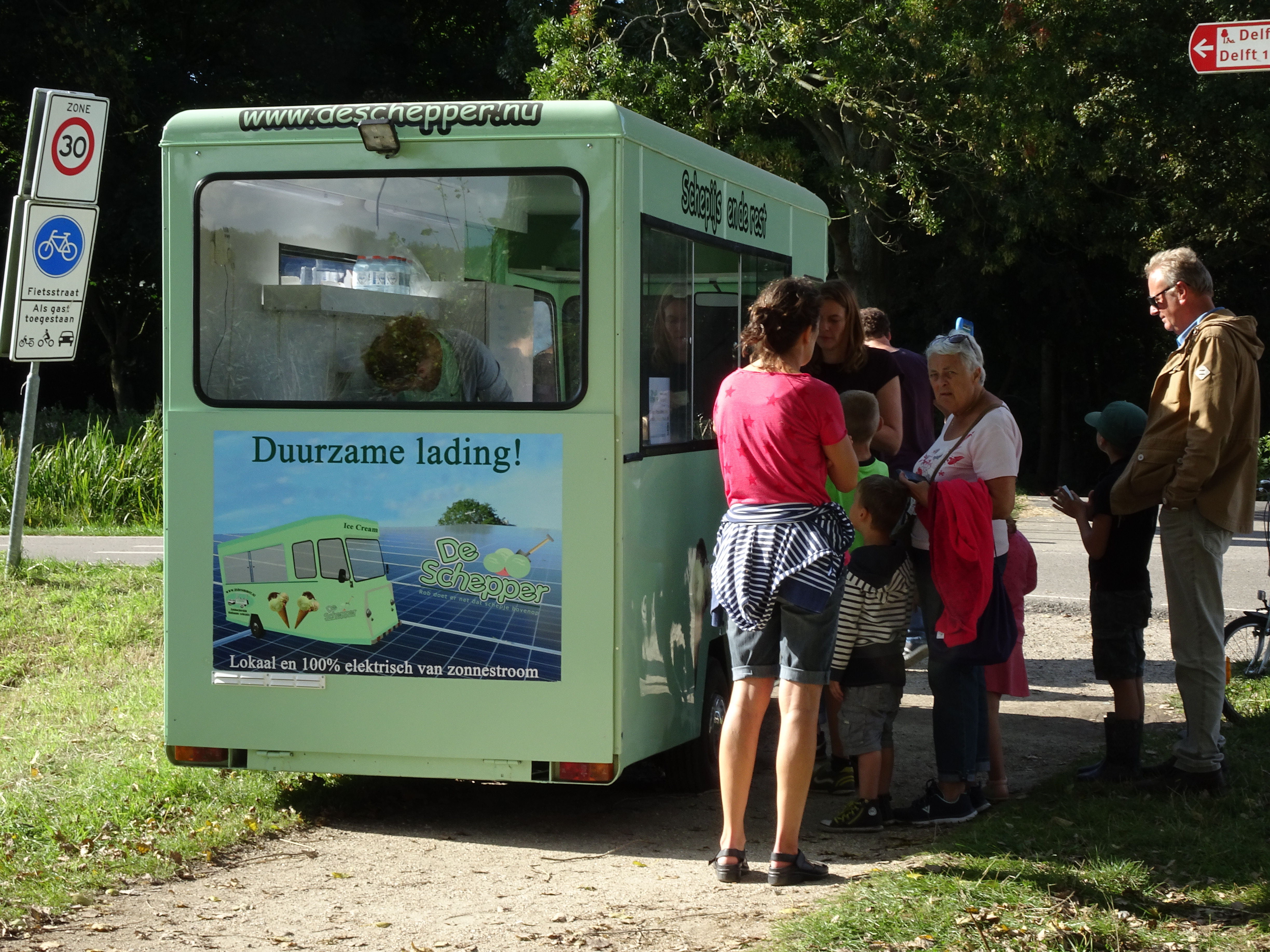 Electric ice car Spykstaal 1500 in Delfgauw, Netherlands.